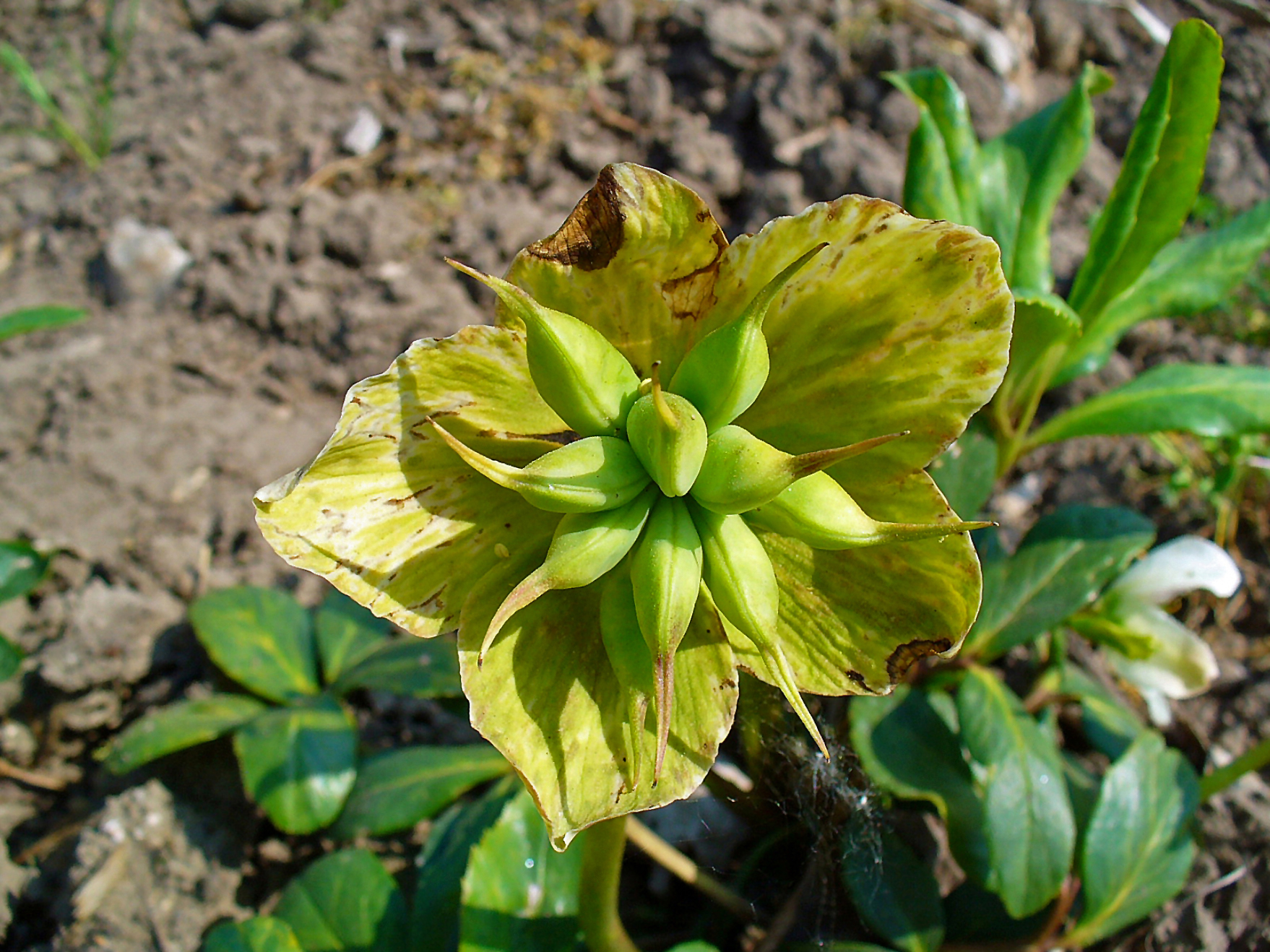 Helleborus niger, Ranunculaceae, Christmas Rose, Black Hellebore, infrutescence. The dried rootstock is used in homeopathy as remedy: Helleborus (Hell.)